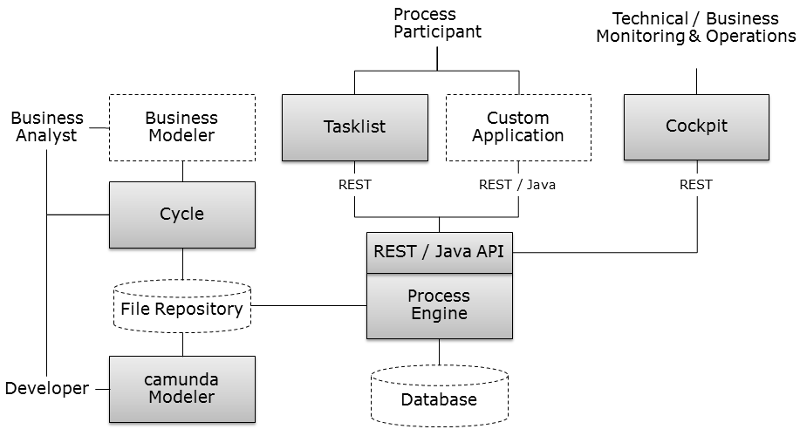 Camunda architecture overview, Process Engine & Infrastructure